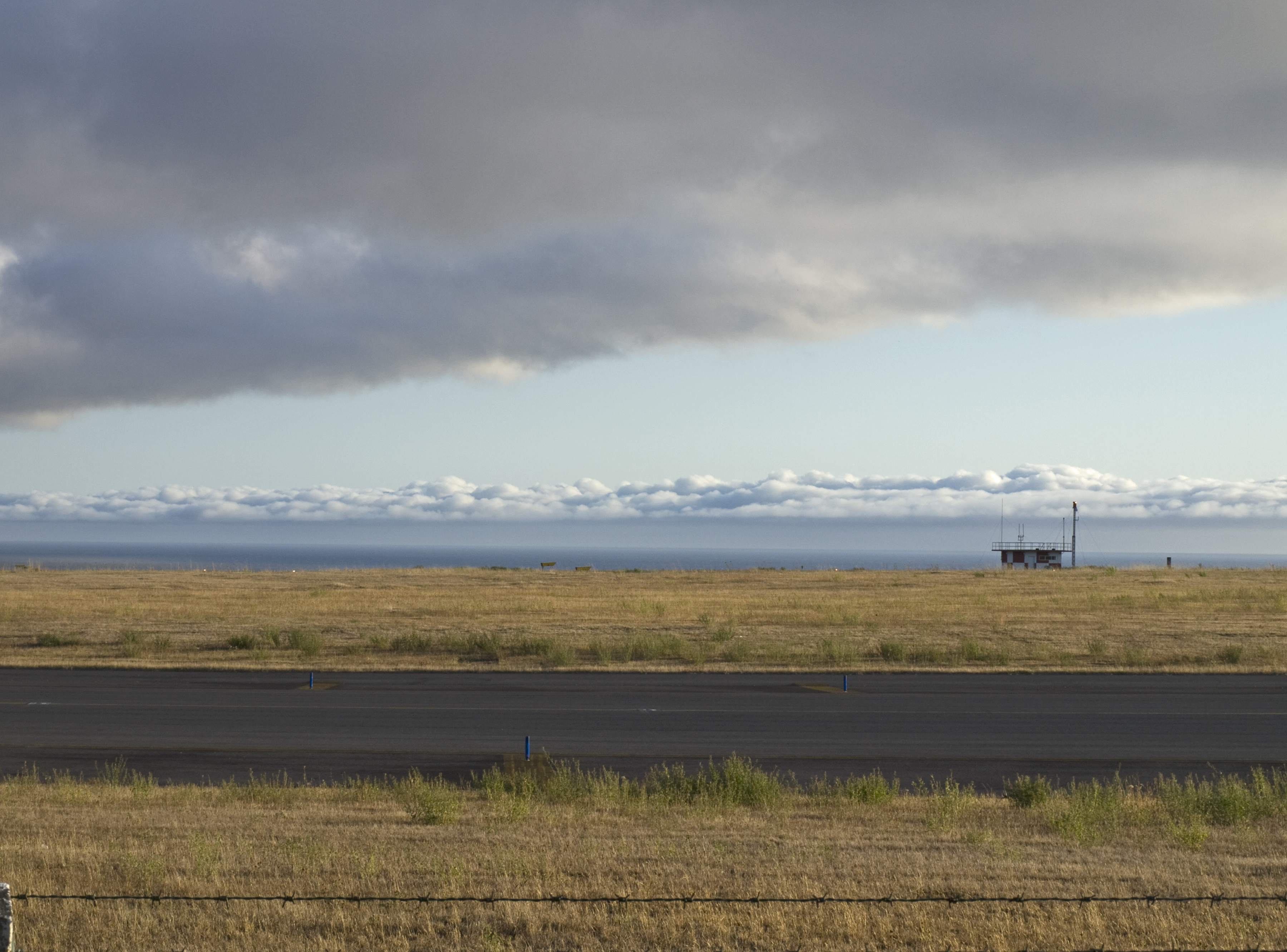 View of the landing strip of Ponta Delgada International Airoprt with the Atlantic Ocean in the background